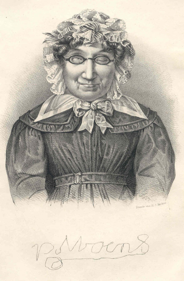 Portrait of Petronella Moens, lithography by H.J. Backer. Frontispice from the book by W.H. Warnsinck and J. Decker Zimmerman, "Petronella Moens". Amsterdam, 1843